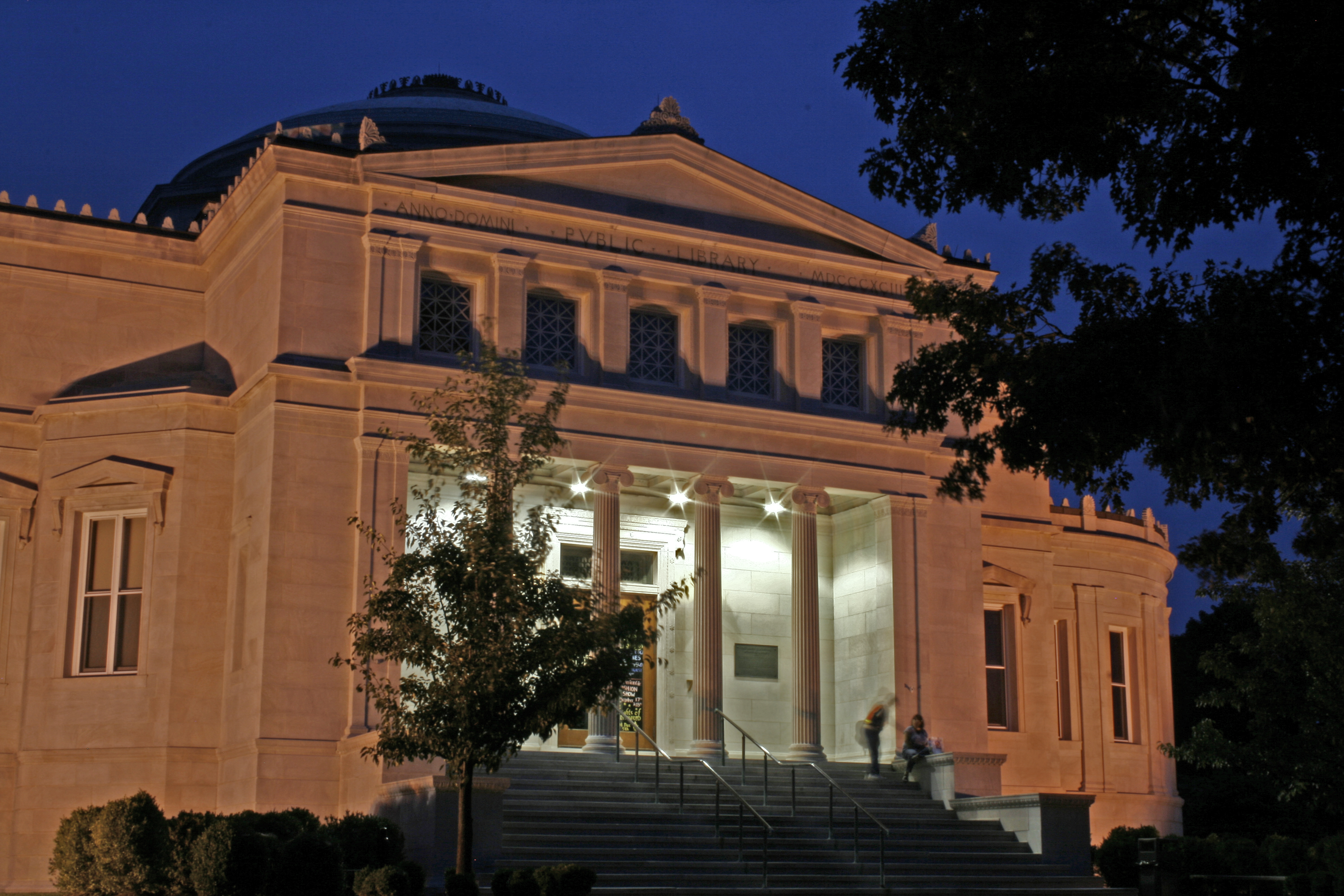 James Blackstone Memorial Library - Library at night, front steps